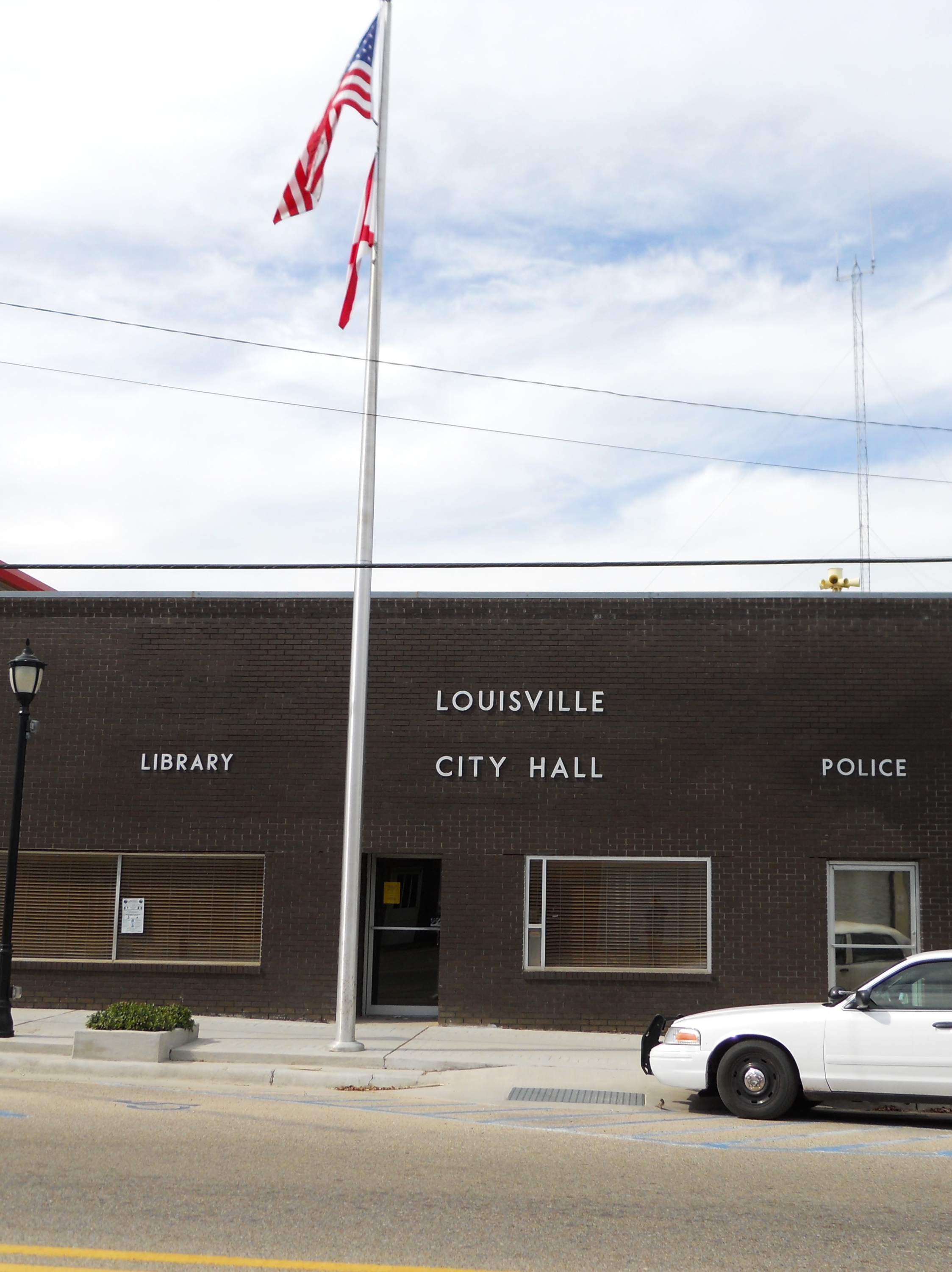 This is a photograph of the Louisville, Alabama City Hall